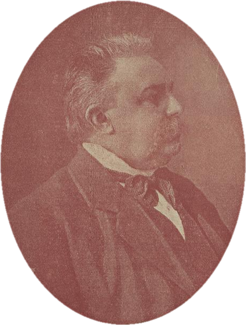 João Augusto Marques Gomes (1853-1931)